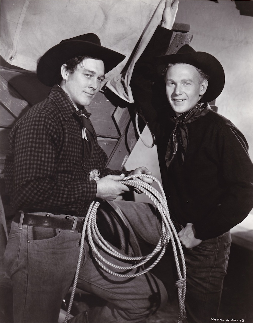 Publicity photograph for the film Wagon Master (1950) showing Ben Johnson and Harry Carey, Jr..